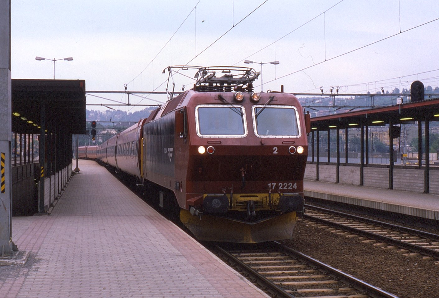 Built between 1982 and 1987, 12 of these El 17 were built by Thyssen-Henschel for Norwegian State Railways. Seen at Oslo Central Station on 11 June 1986 is 17.2224.